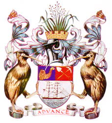 Coat of Arms of the City of Auckland, New Zealand. Granted on 23 October 1911.